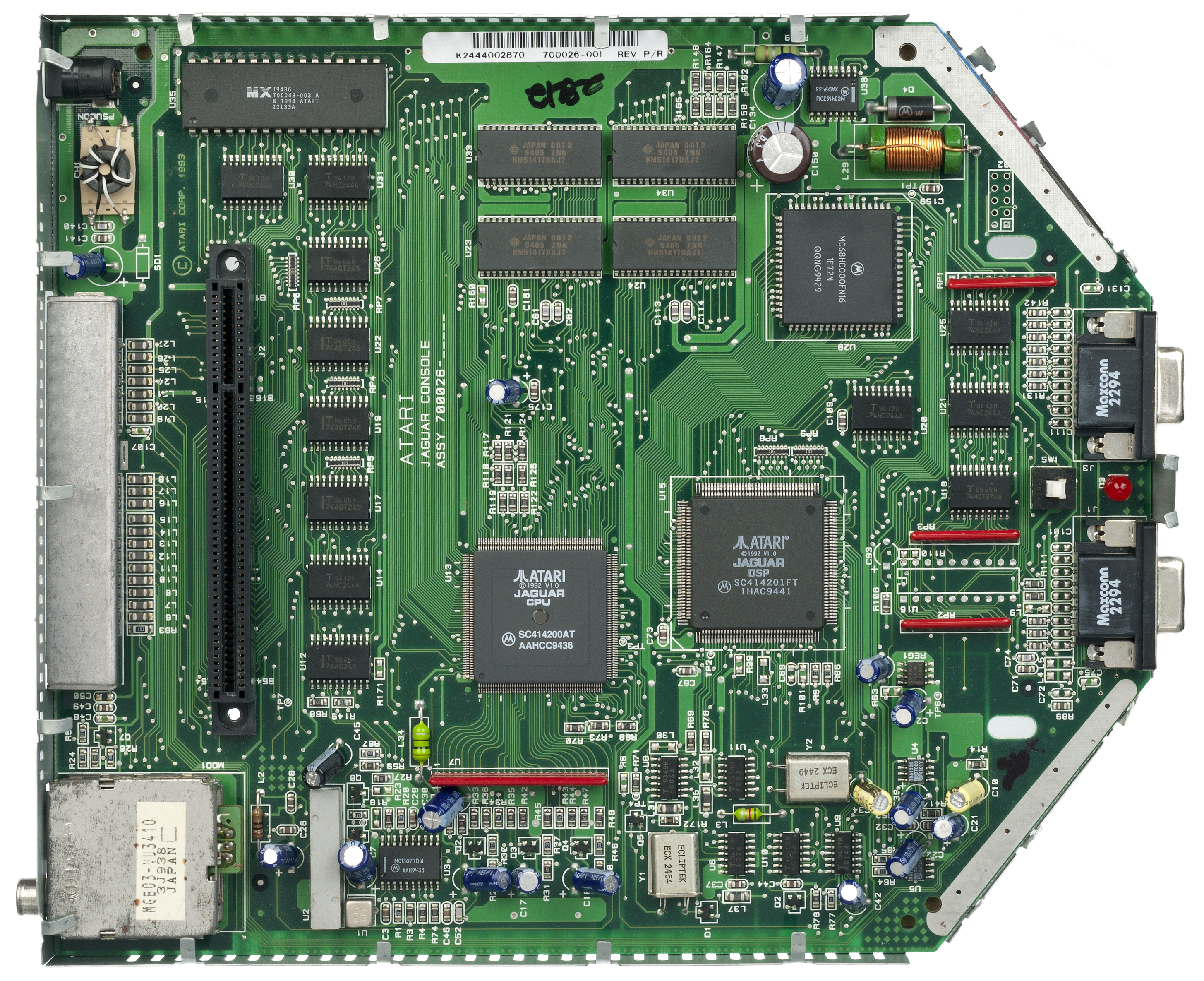 The motherboard for an Atari Jaguar, Atari Corp's last video game console. Originally released in 1993, the Jaguar utilizes a multi-chip architecture using two custom chips and a Motorola 68000. The two custom chips, the Tom & Jerry chips, handle most of the graphics and audio of the system, with the 68000 acting as a "manager." This is a REV P / R motherboard, the major chips are labeled: JAGUAR CPU V 1.0 MOTOROLA SC414200AT AAHCC9436 JAGUAR DSP V 1.0 MOTOROLA SC414201FT IHAC9441 MOTOROLA MC68HC000FN16 1E72N QQNG9429